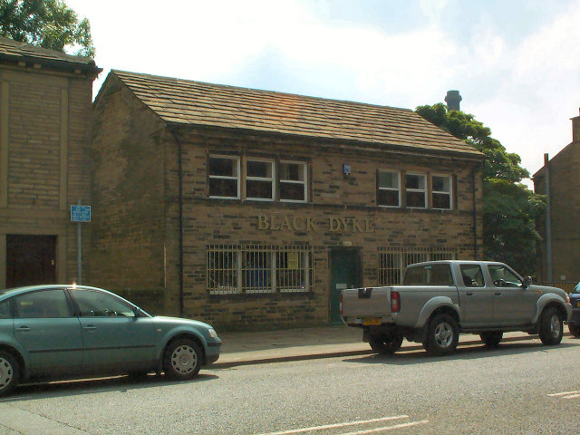 Black Dyke Band's bandroom. In Sandbeds, Queensbury, the headquarters of the world's premiere brass band. 2005 marks the Band's 150th anniversary year.